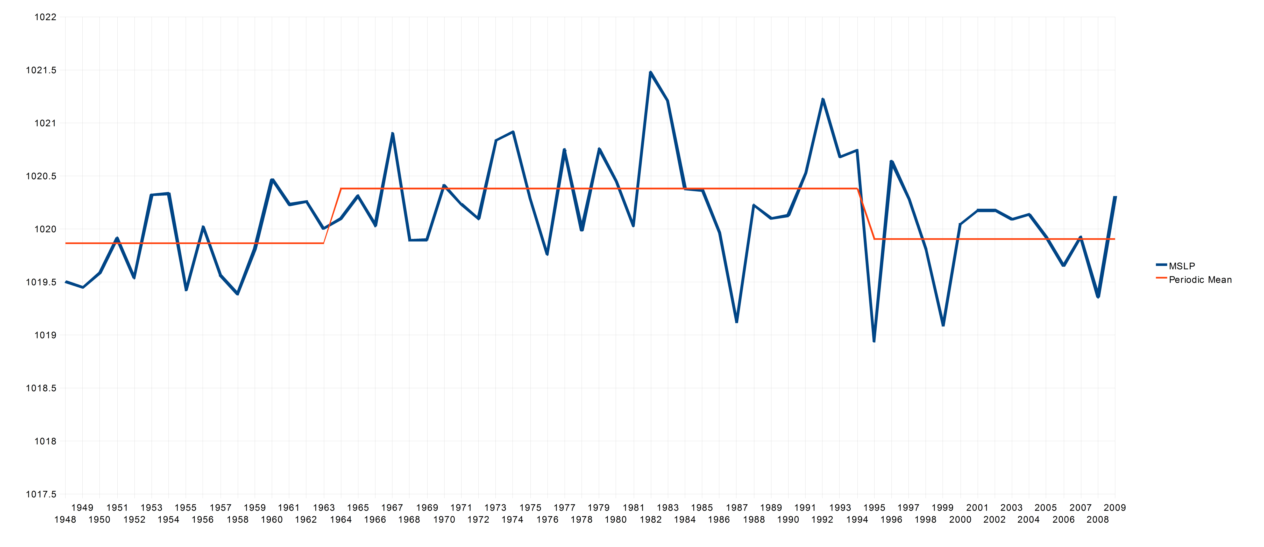 Mean Sea Level Pressure for the Bermuda High (Latitude Range used: 40.0 to 20.0 et longitude Range used: -65.0 to -20.0) with a mean for each phase of the Atlantic Multidecennal Oscillation. Original data from Earth System Research Laboratory